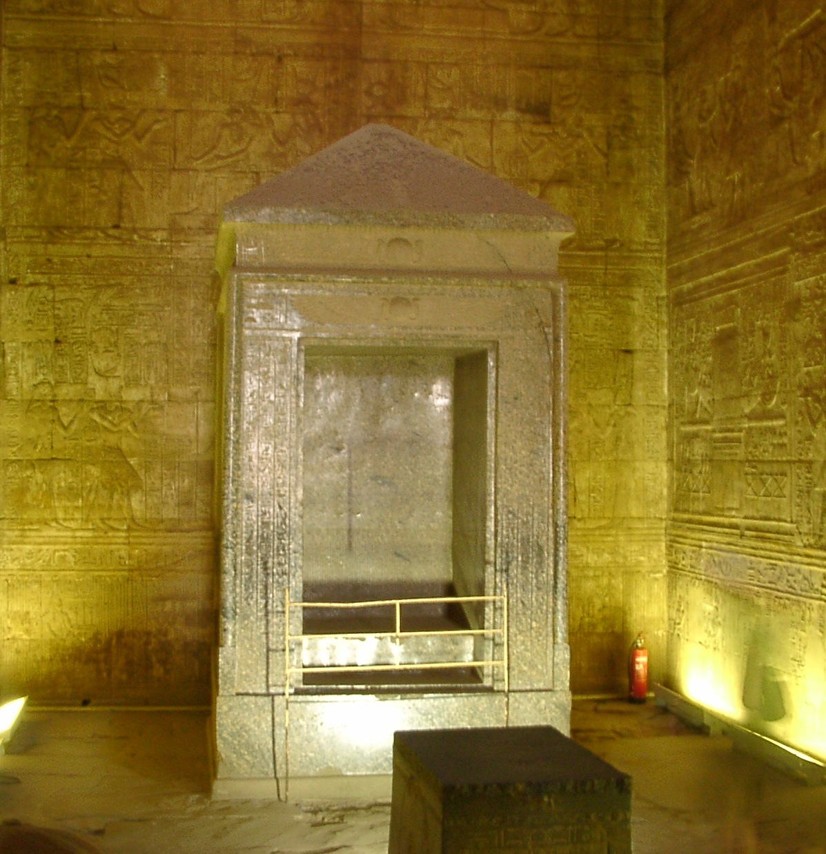 Naos of Horus Temple in Edfu, Egypt